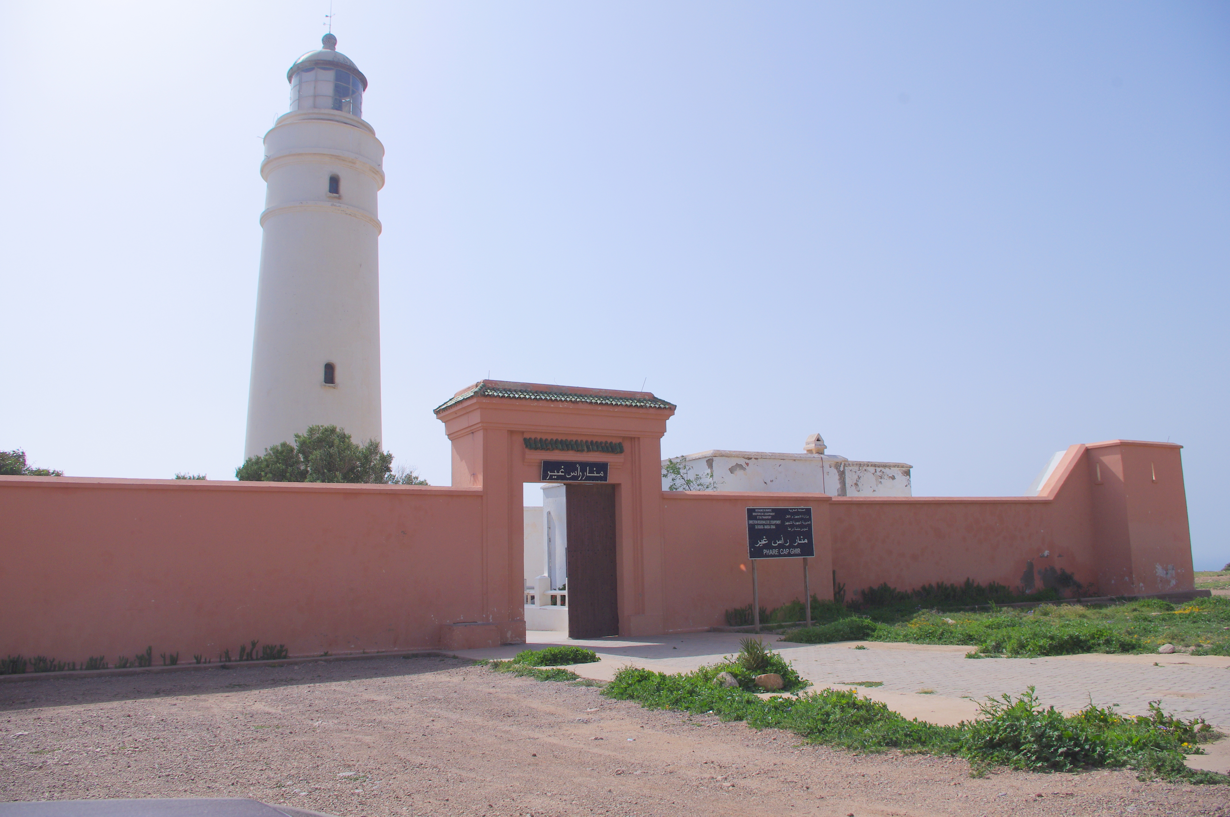 Lighthouse Cap Ghir, Morocco